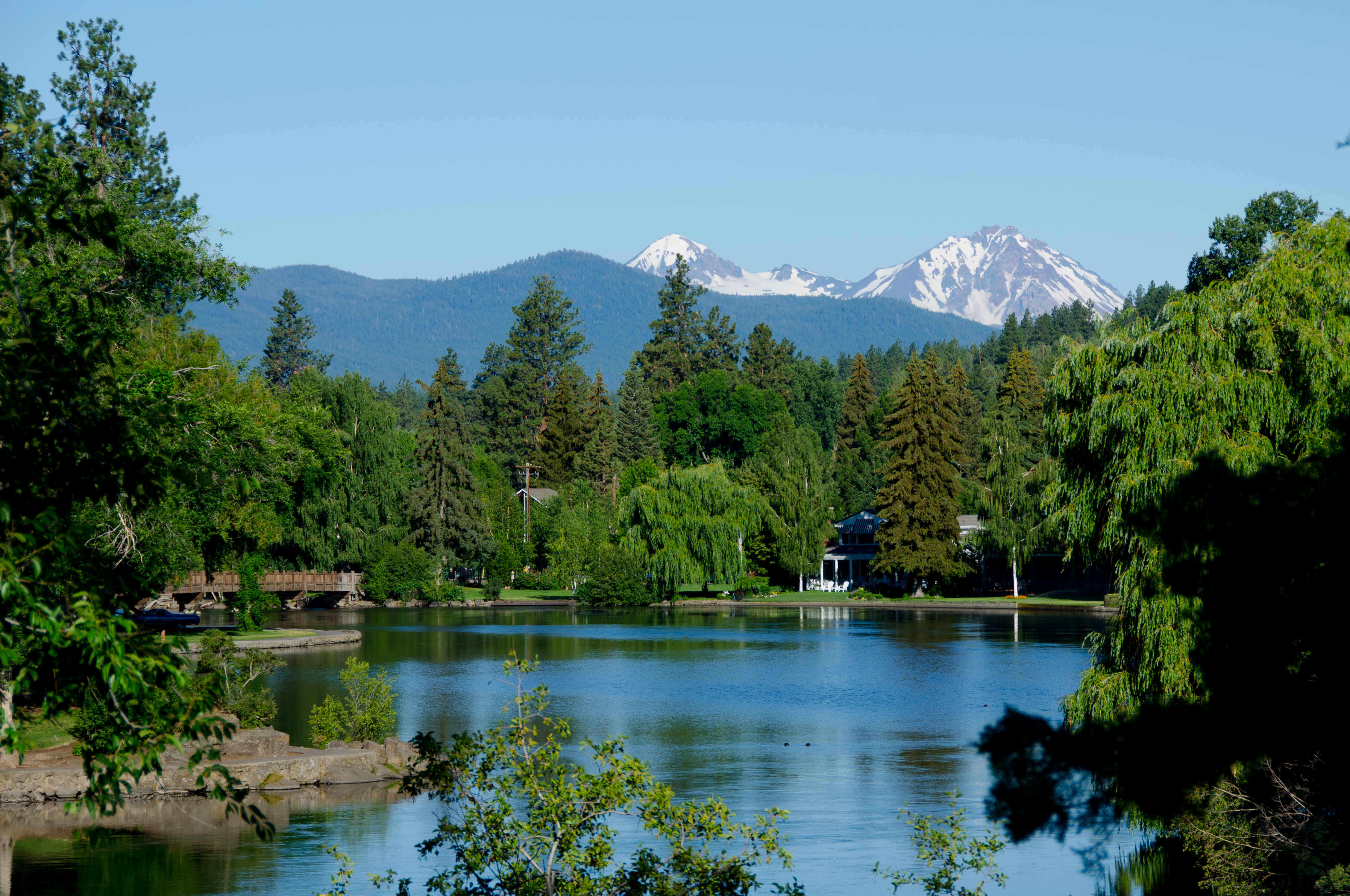 This is the view overlooking Mirror Pond. The Three Sisters are in the background.